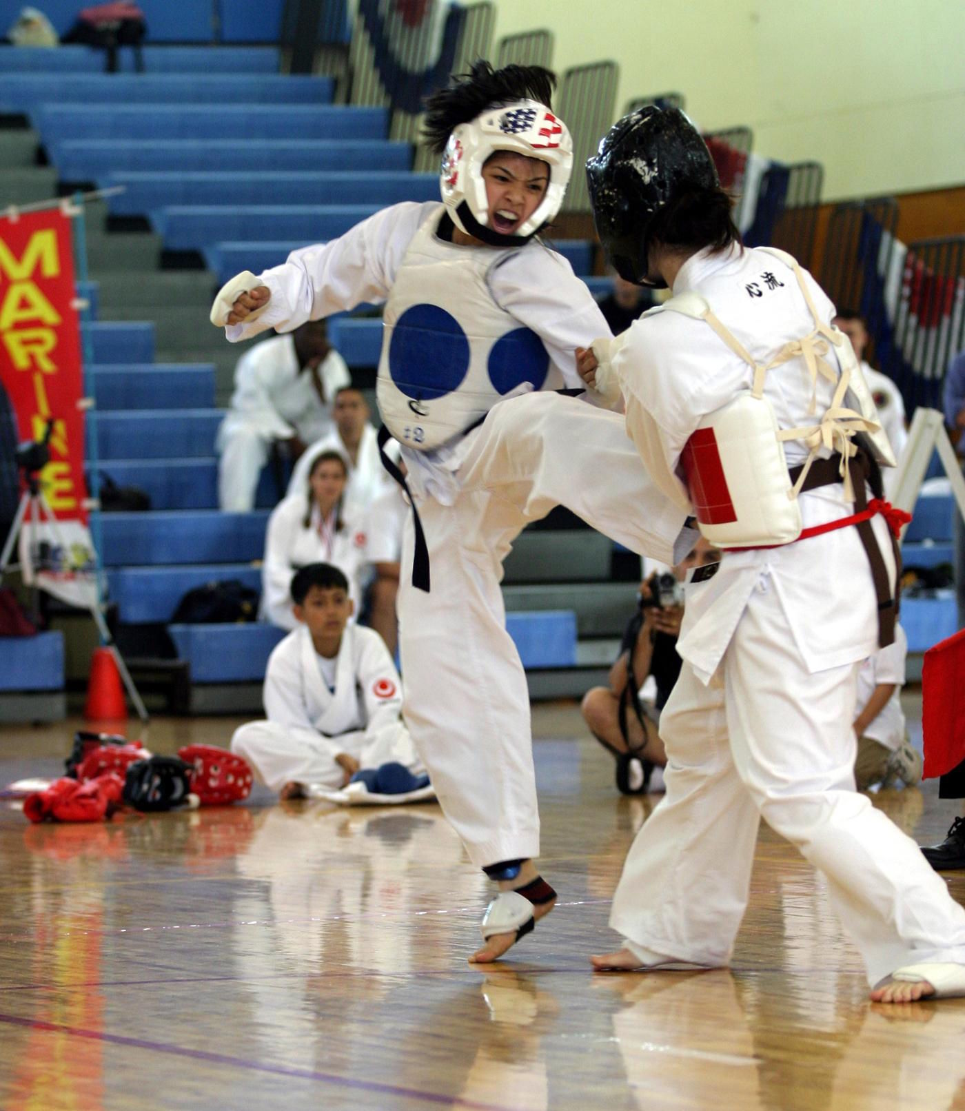 Karate kumite. Author: Lance Cpl. Chris Korhonen Date: 02/04/2004 Caption: MARINE CORPS AIR STATION FUTENMA, Okinawa, Japan - Suan Sharon shouts as she delivers a kick to Jennie Porter during the final kumite, or sparring match, of the 16 to 17-year old female category of the Open Karate Tournament. Sharon went on to win the match, and best overall female performance.